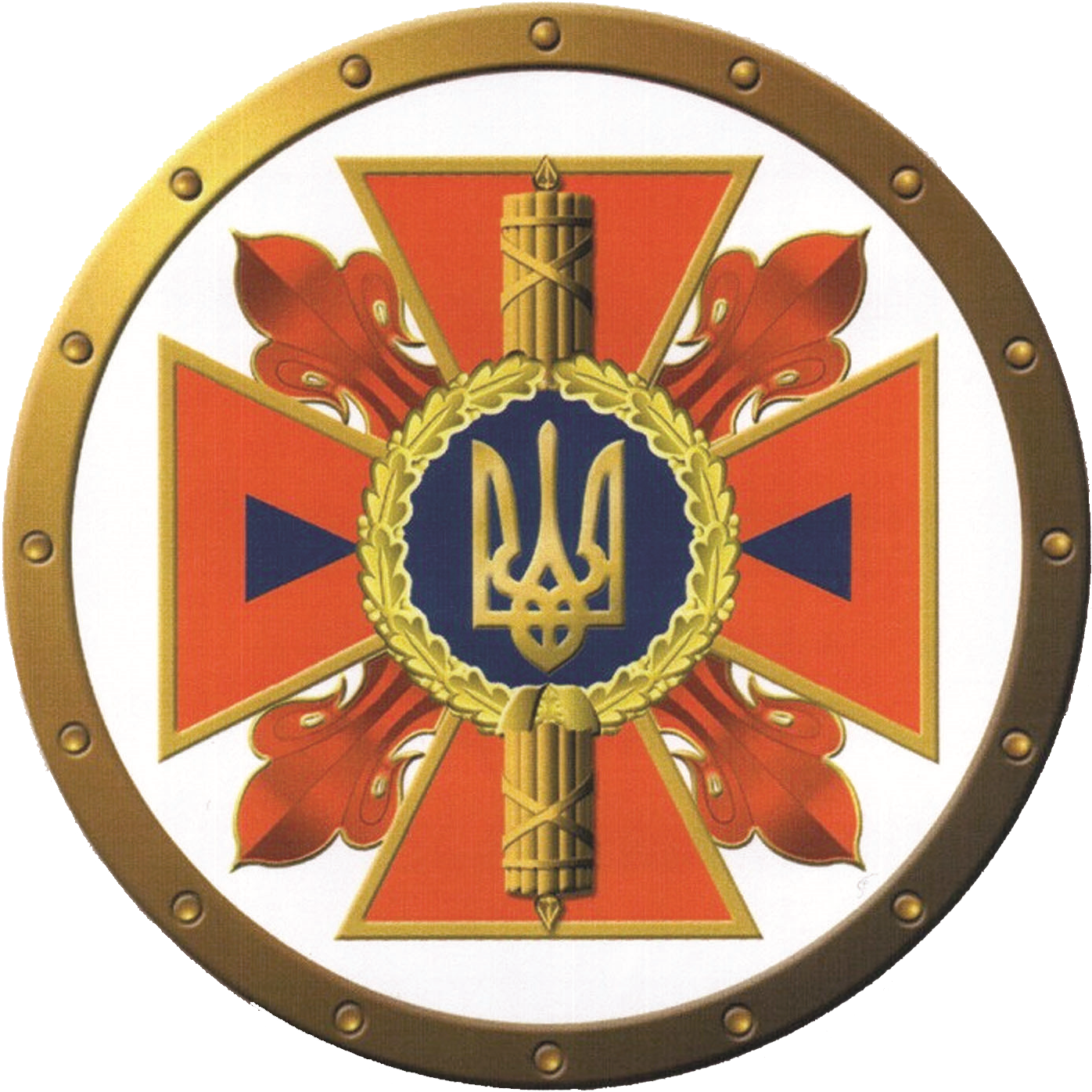 Central department of DSNS of Ukraine emblem